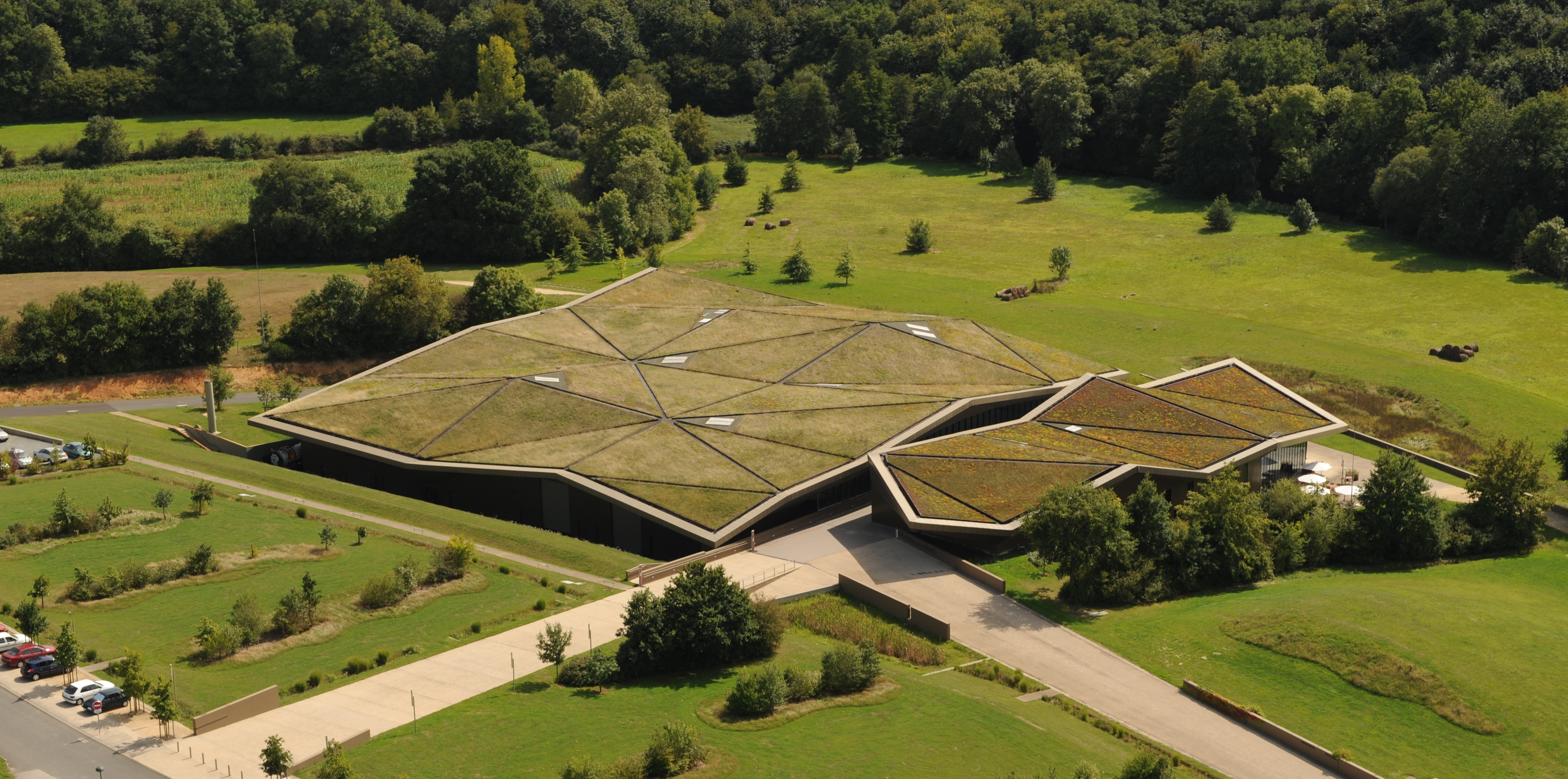 Toiture végétalisée